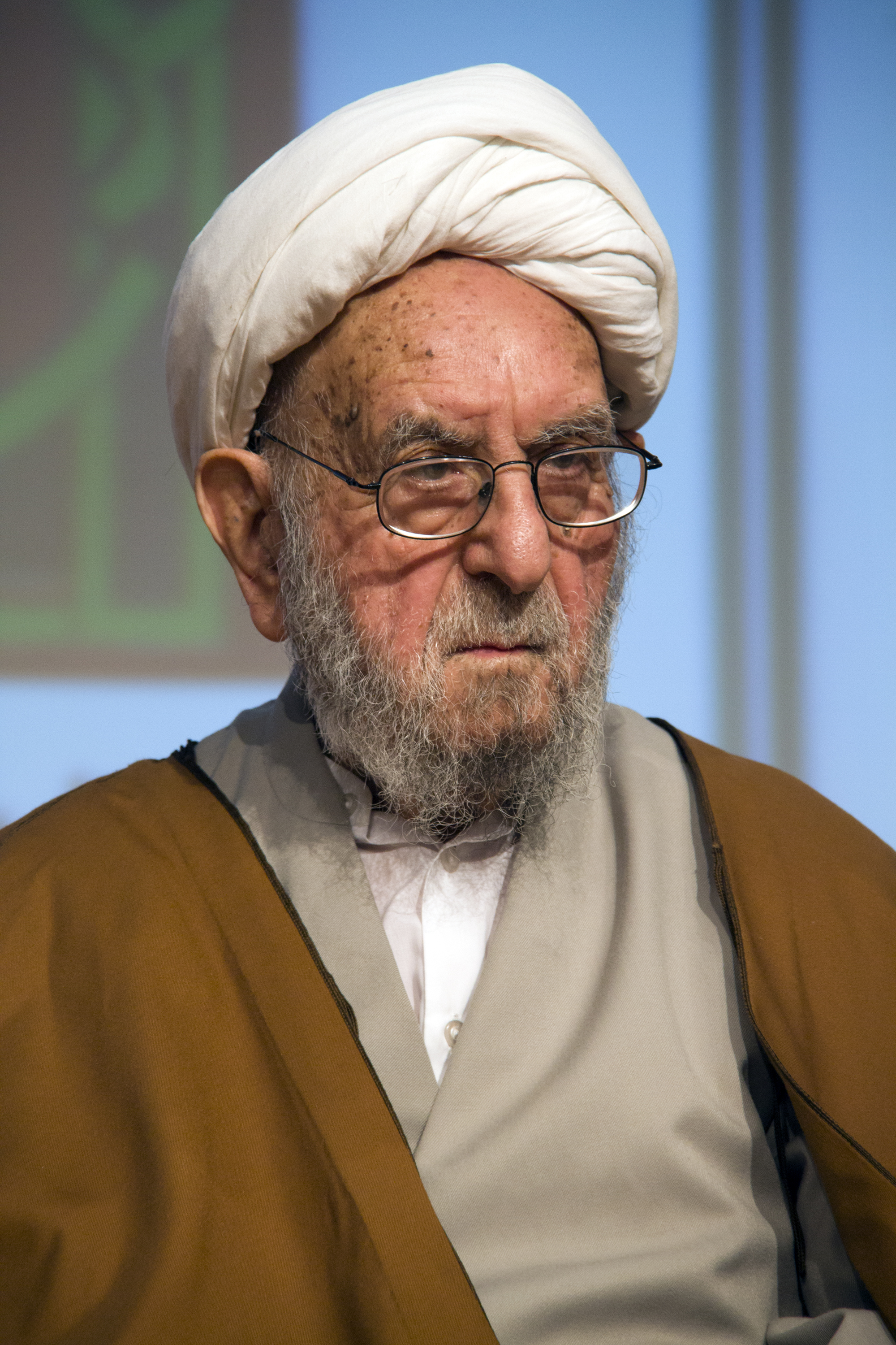 Ebrahim Amini (born 30 June 1925 in Najaf Abad, Isfahan Province, Iran) is an Iranian politician in the Assembly of Experts. He is also a member of the Expediency Discernment Council, and has been identified as a possible candidate to become the next Iranian Supreme Leader.